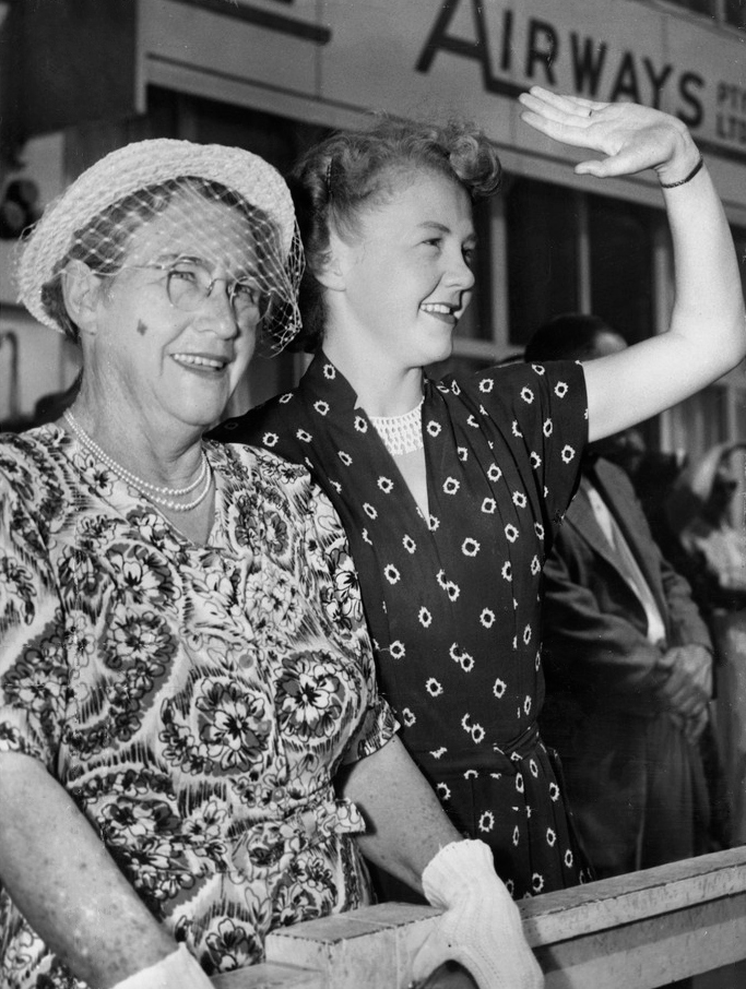 Australian test cricketer Neil Harvey: his mother and fiancee, Iris Greenish